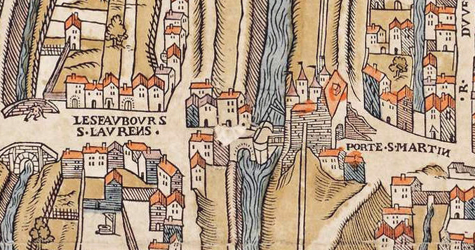 St-Martin gate on the plan of Truschet and Hoyau (1550).